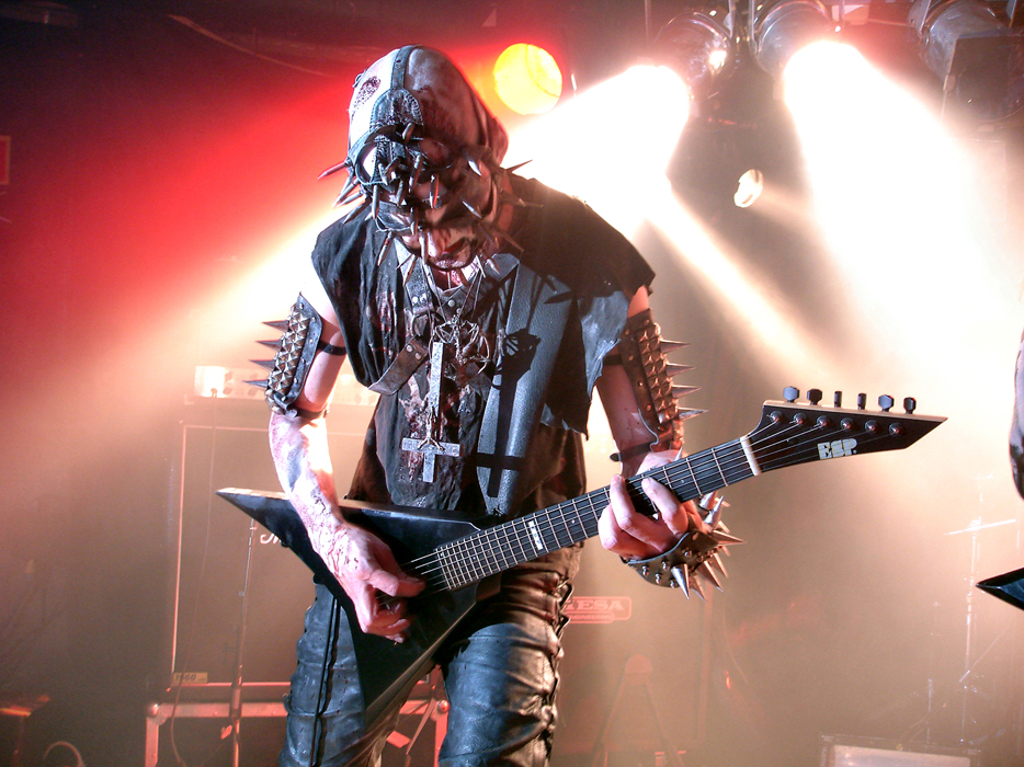 Enzifer, guitarrist of Urgehal live at Hole in the Sky 2008.